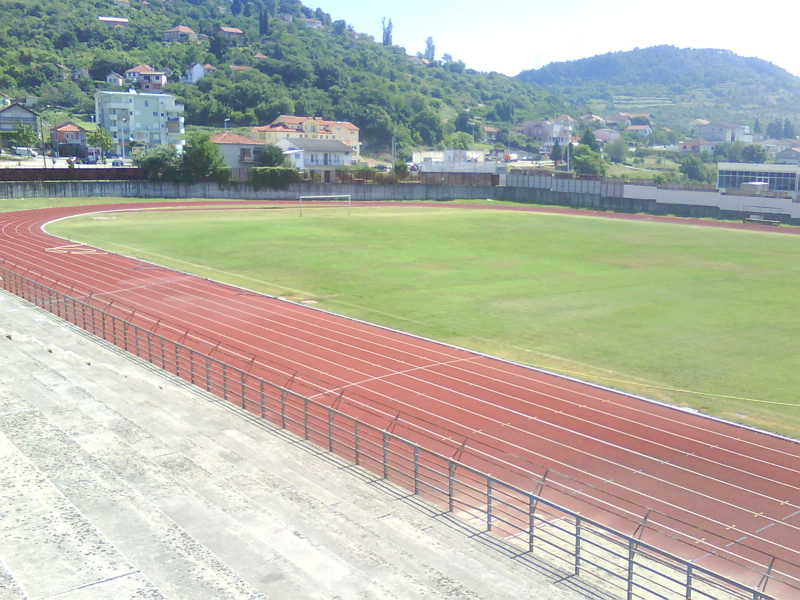 City football stadium Babovac in Ljubuški